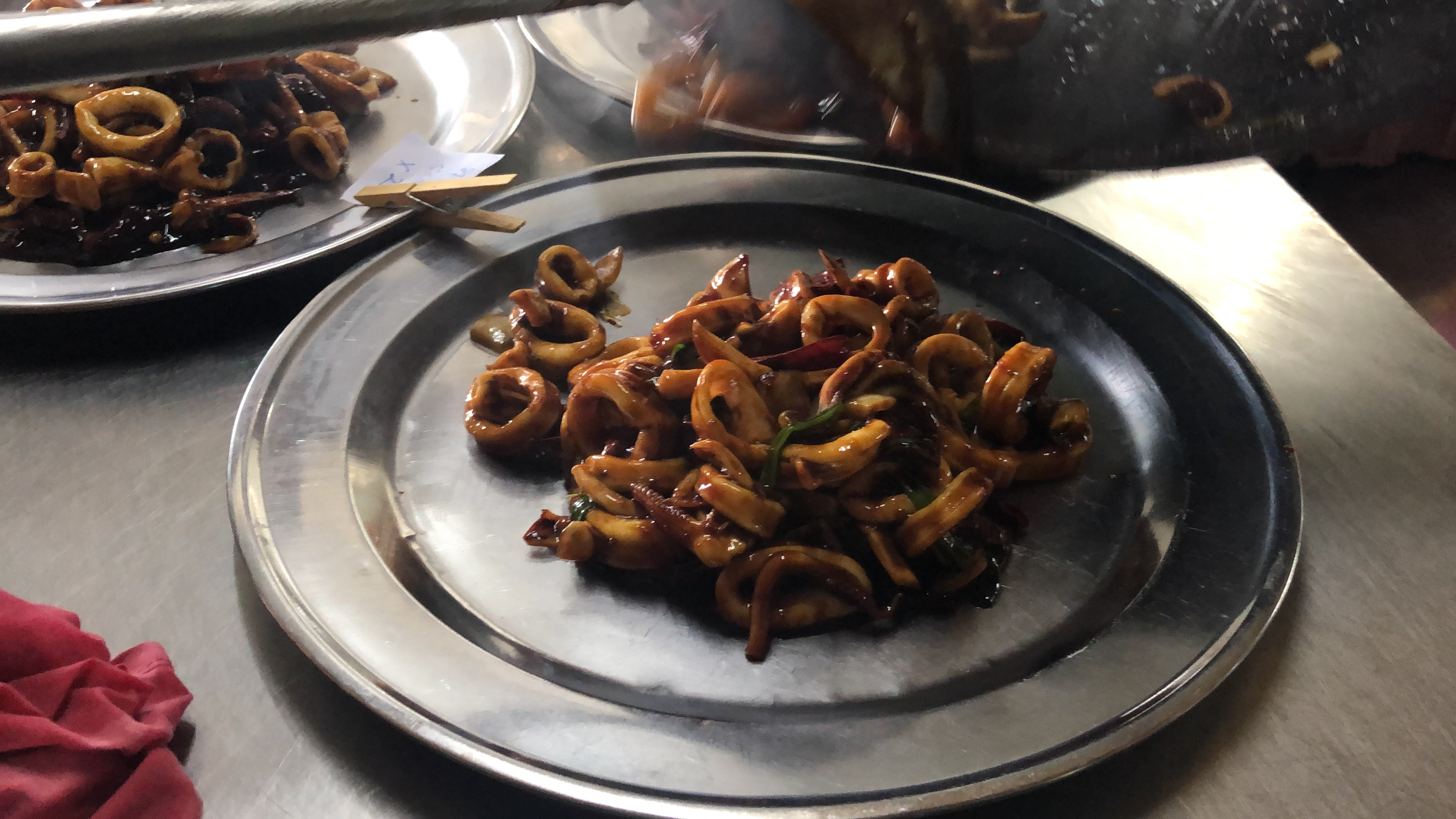 MakananLaut